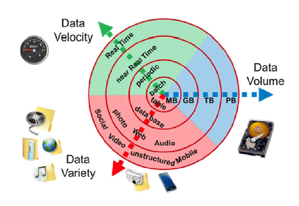 Shows the growth of data from a single source towards big data and the associated volume, velocity, and variety associated with it.